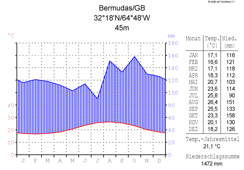 climate chart in the format by Walter and Lieth, metric, °Celsisus and millimeters, made with Geoklima 2.1